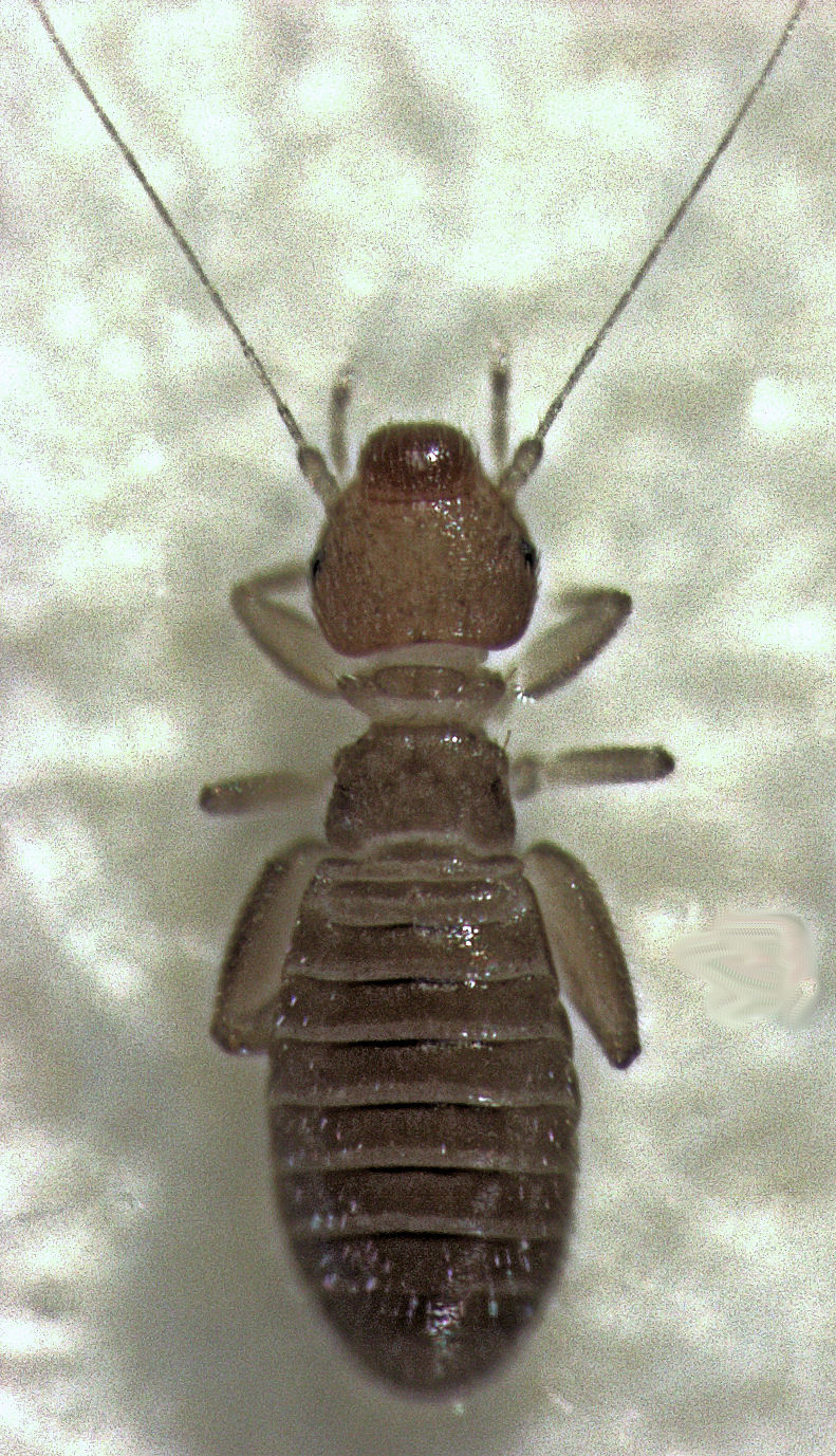 adult Liposcelis sp.